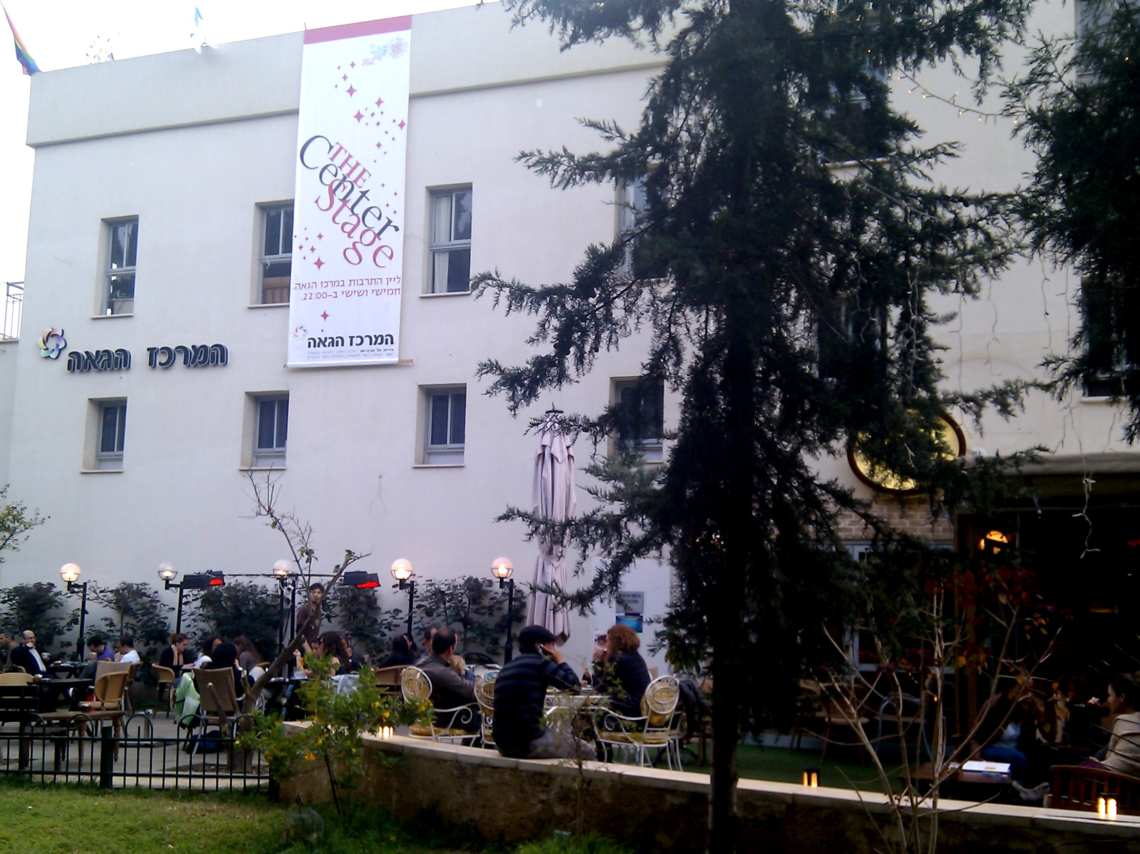 Tel Aviv Municipal LGBT Community Center